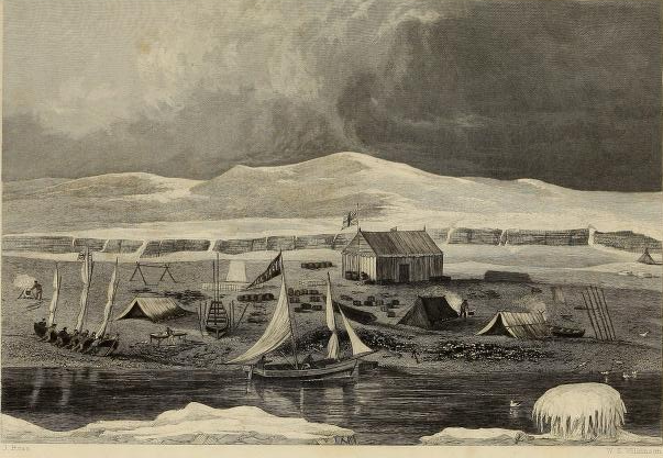 House built on John Ross's 1829–1833 Arctic expedition